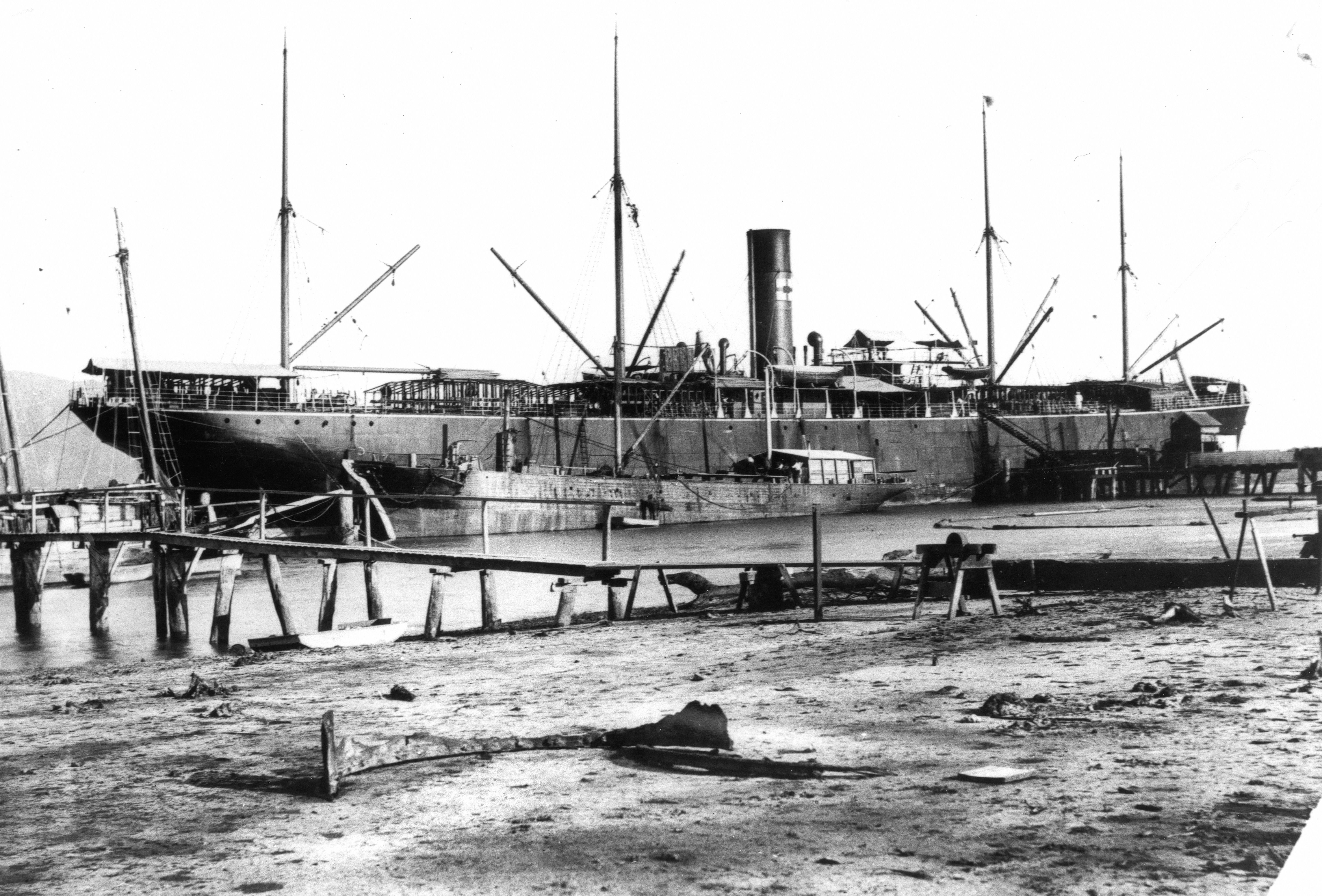 Federal Steam Navigation Co cargo steamship Suffolk at Chillagoe Railway Wharf, Cairns, Queensland. (From description supplied with photograph.)